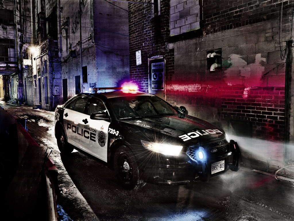 A Hamilton Police Service Ford Police Interceptor sedan on patrol